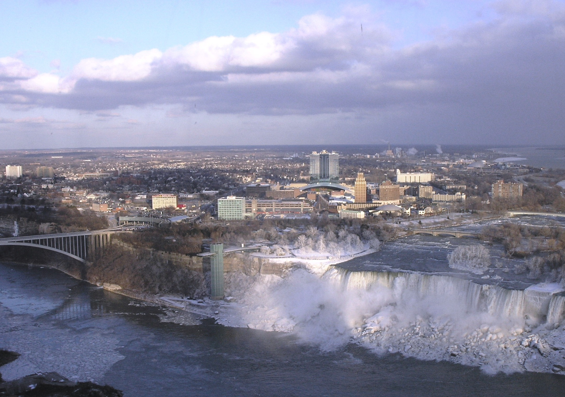 Taken by Danielo Mayer in late February Cropped by User:Mwanner to work better in info box. Original is at :Image:Niagara Falls